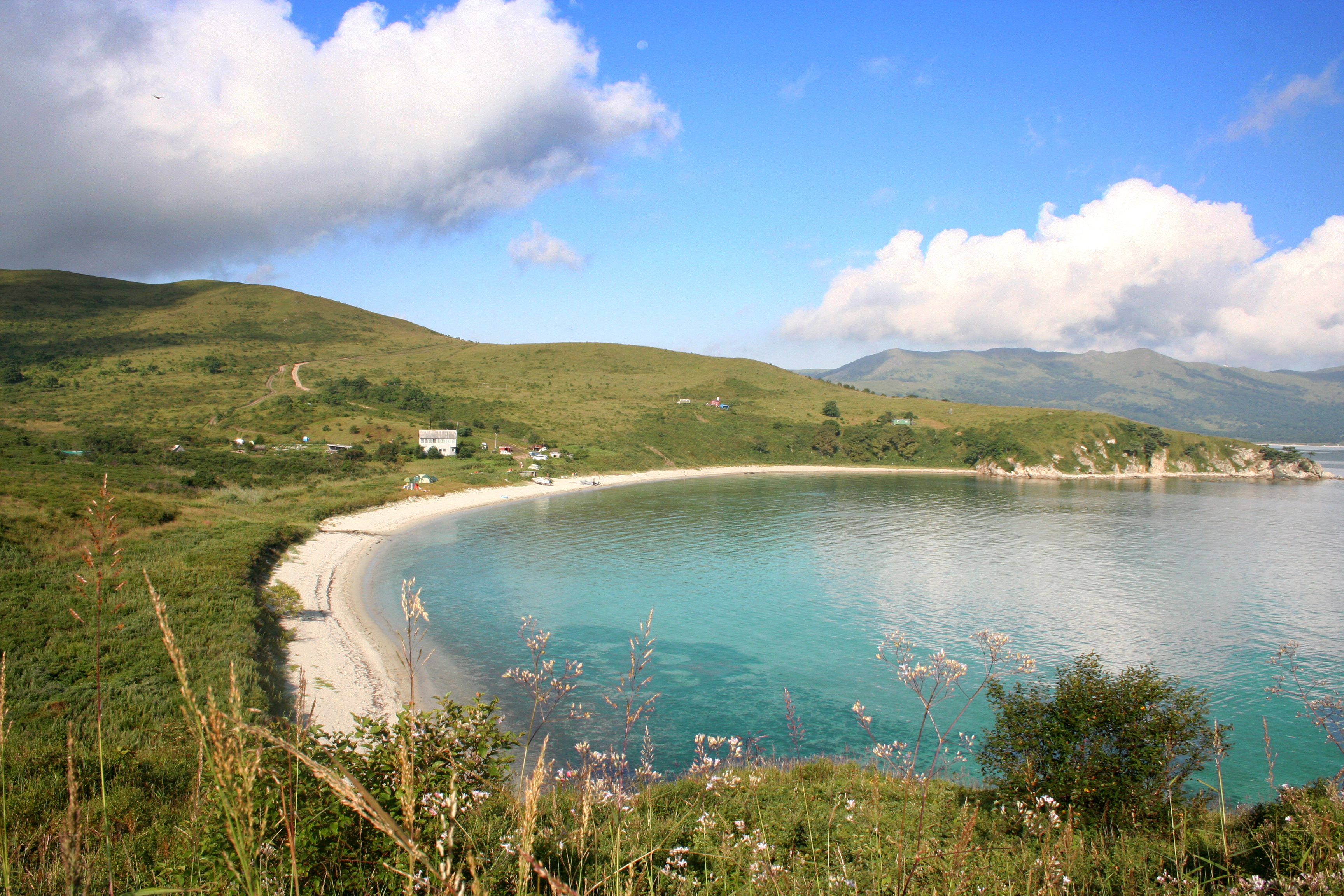 Far Eastern Marine National Reserve